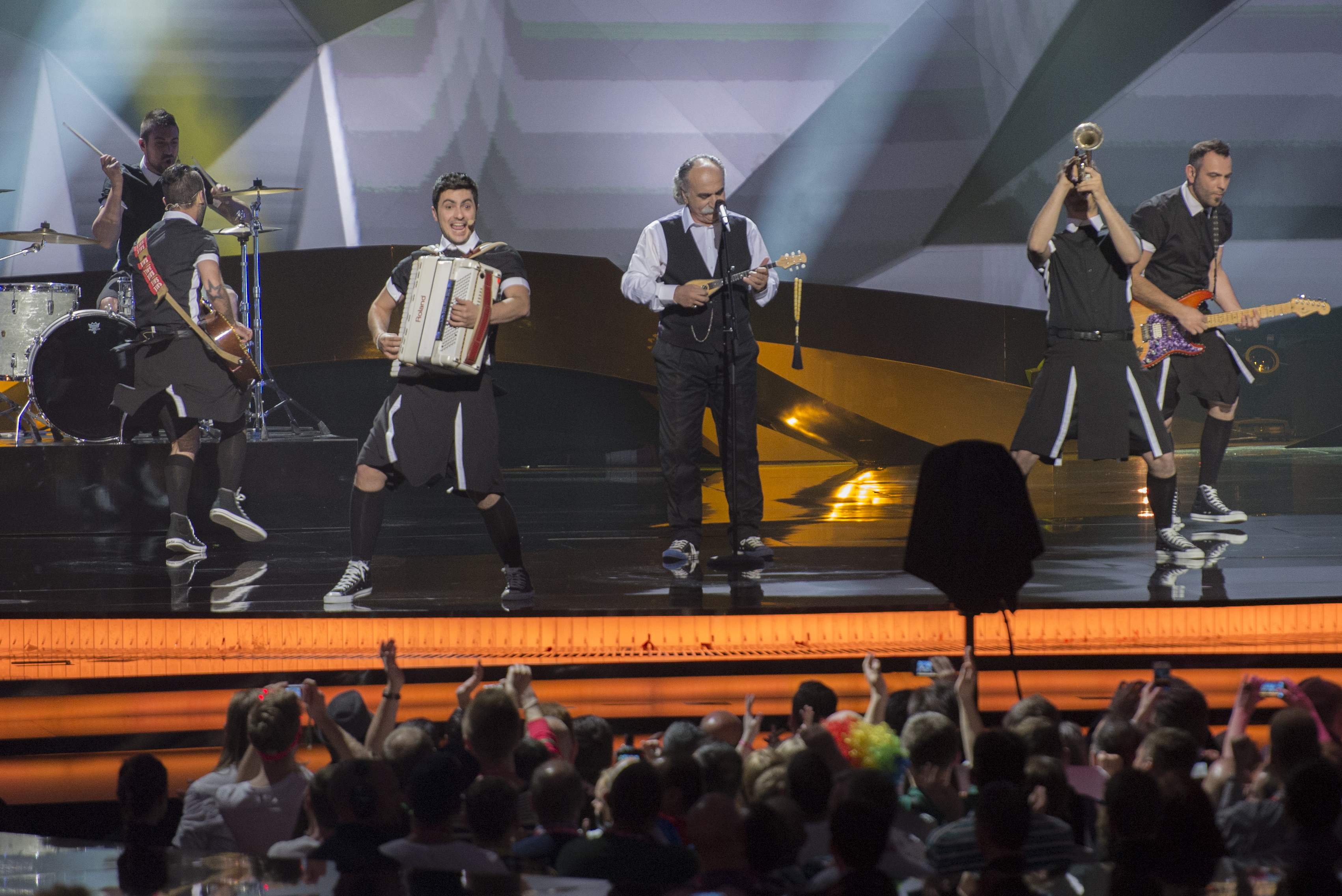 Koza Mostra feat. Agathon Iakovidis representing Greece with the song "Alcohol Is Free" during the second dress rehearsal of the second semi final of the Eurovision Song Contest 2013 in Malmö. (Help translate this text)